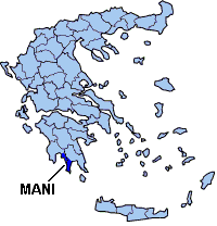 Map of Greece with darker shading on Mani Peninsula, labeled with pointing line (in quick GIF format, 200x208px).